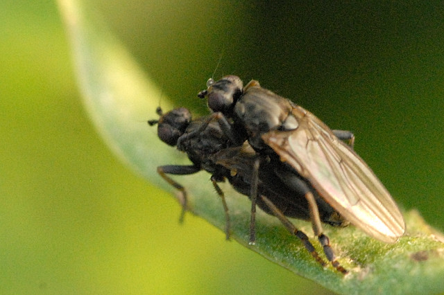 Limosina silvatica from Commanster, Belgian High Ardennes .